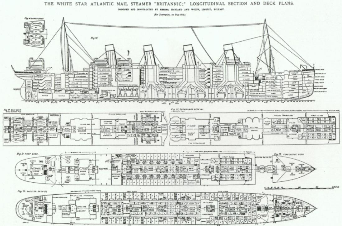 The White Star Atlantic Mail Steamer Britannic (deck plans)